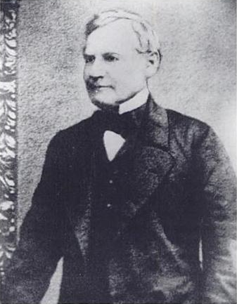 Sir Charles Elliot, British naval officer, diplomat and colonial administrator.